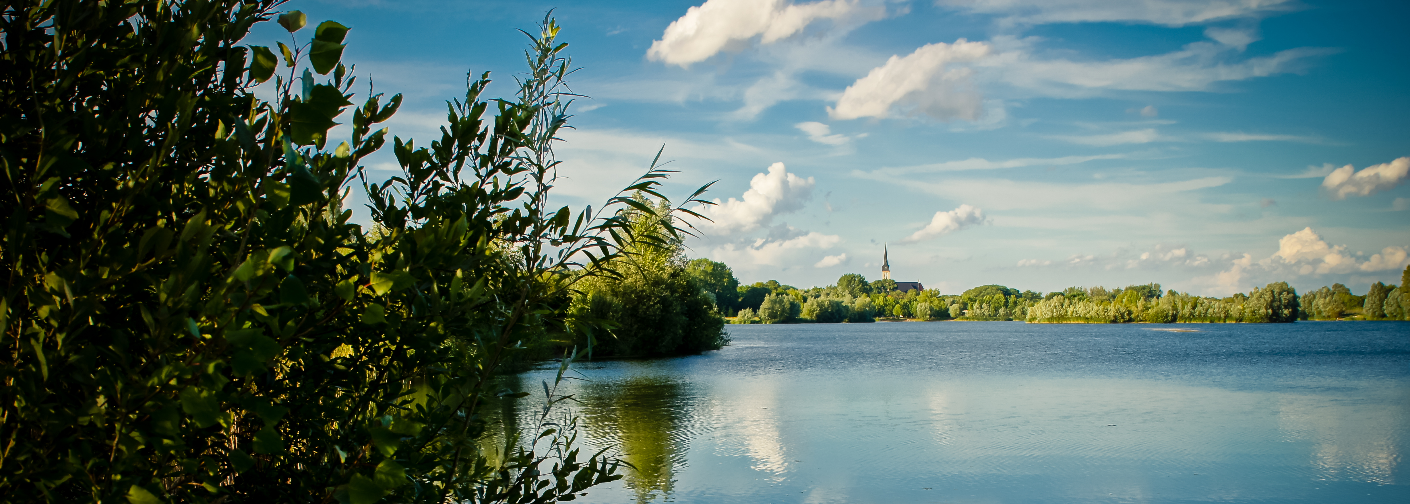 Overlooking Lake (former quarry lake) Ditfurt - in background: spire of "St. Bonifatius" church